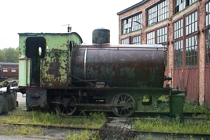 Borsig 10933/1923, 0-4-0F fireless locomotive of Saastamoinen Oy in Finland